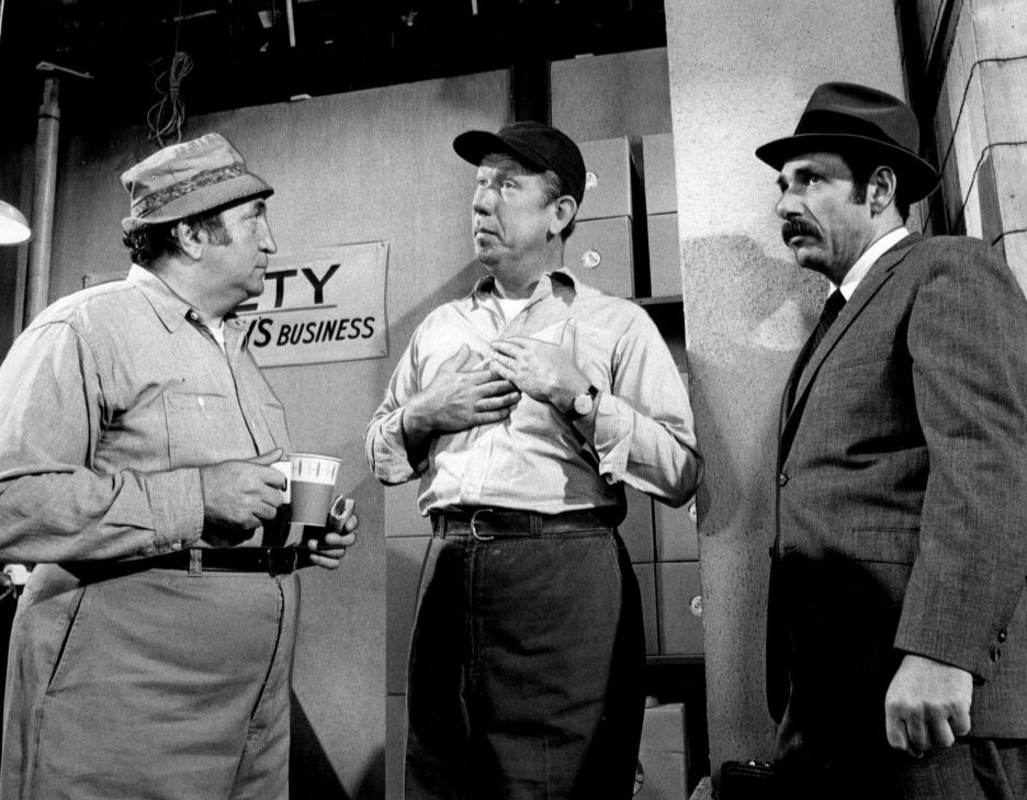 Factory scene from the television program Arnie. From left: Tom Pedi, Allan Melvin and Herschel Bernardi as Arnie Nuvo, a former factory worker who received an executive position at the plant.